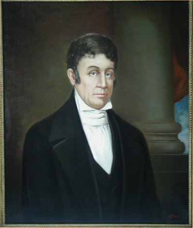 Portrait of Archibald Roane, second Governor of the state of Tennessee. Collection of the Tennessee State Museum, Nashville. Image courtesy of the Tennessee Portrait Project.